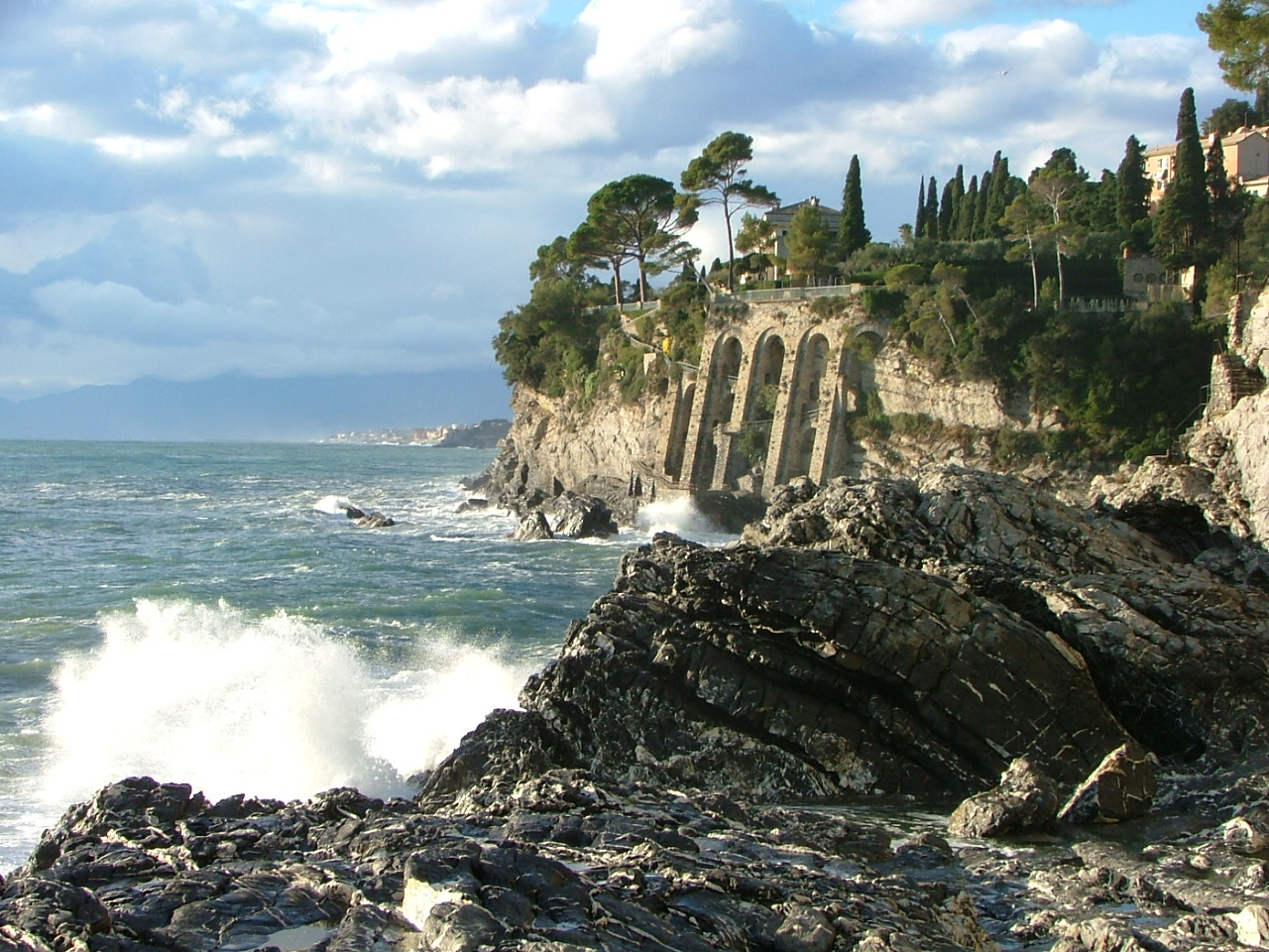 Panorama of Pieve Ligure